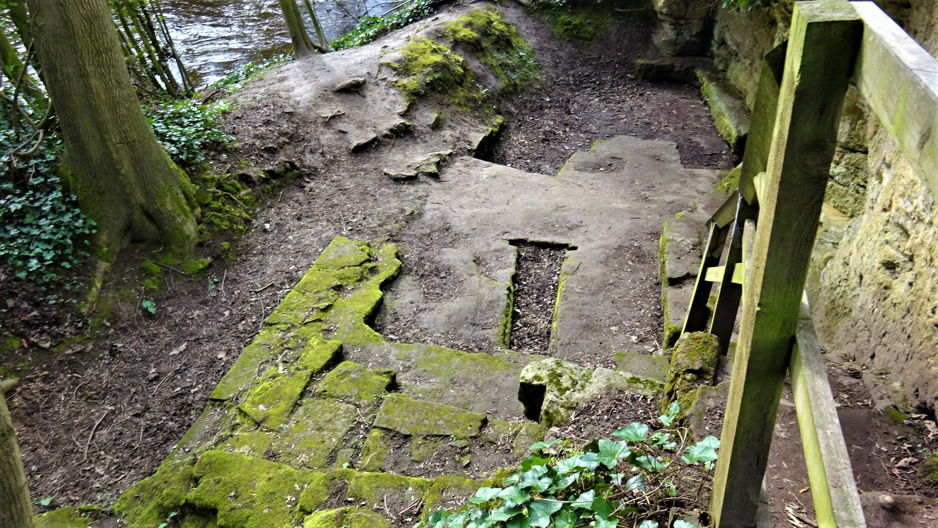 St Robert of Knaresborough cave and chapel of the Holy Cross site, Knaresborough, Yorkshire, England. His original burial site is visible.